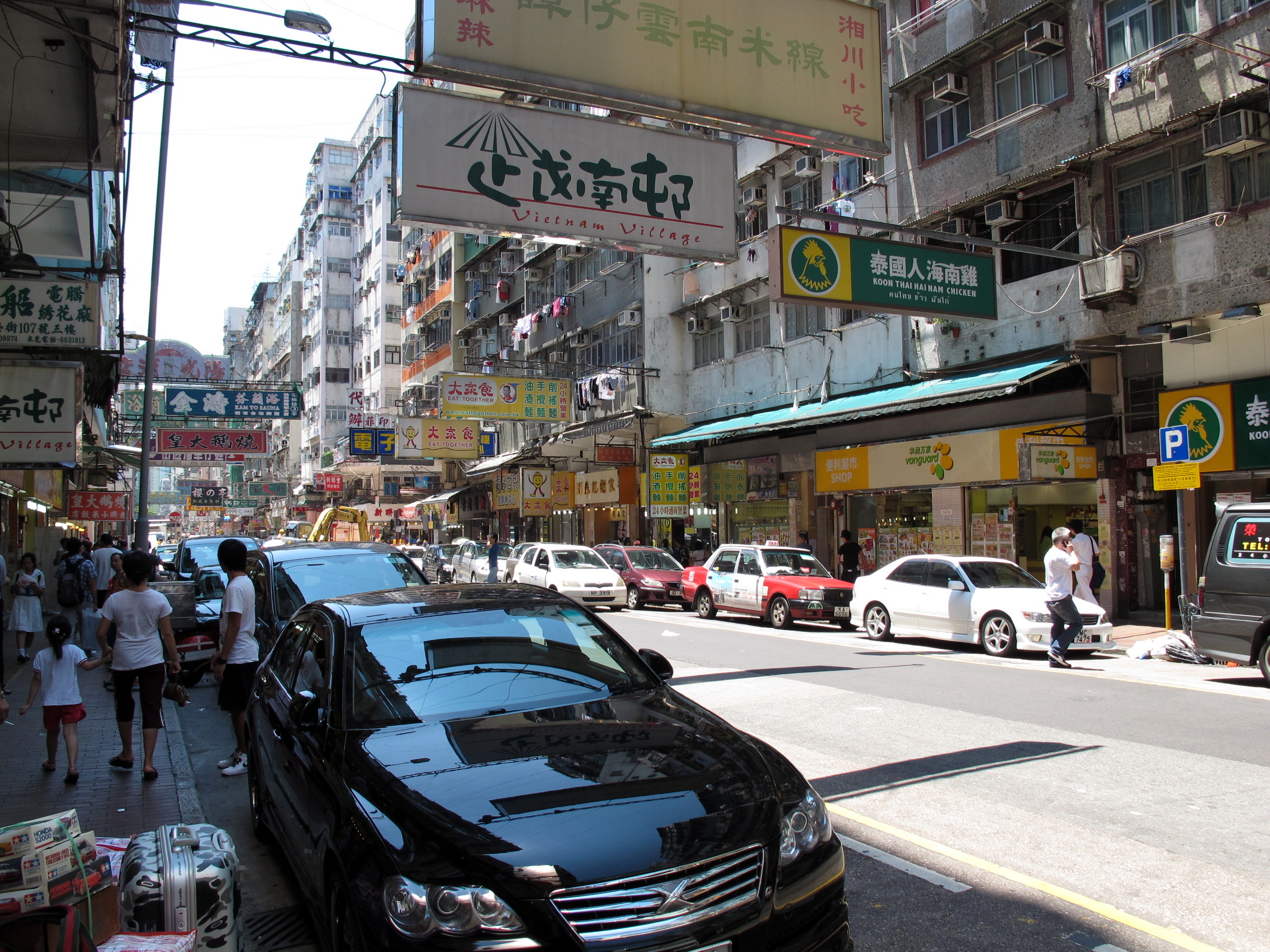 Fuk Wing Street 福榮街, Sham Shui Po District, Hong Kong